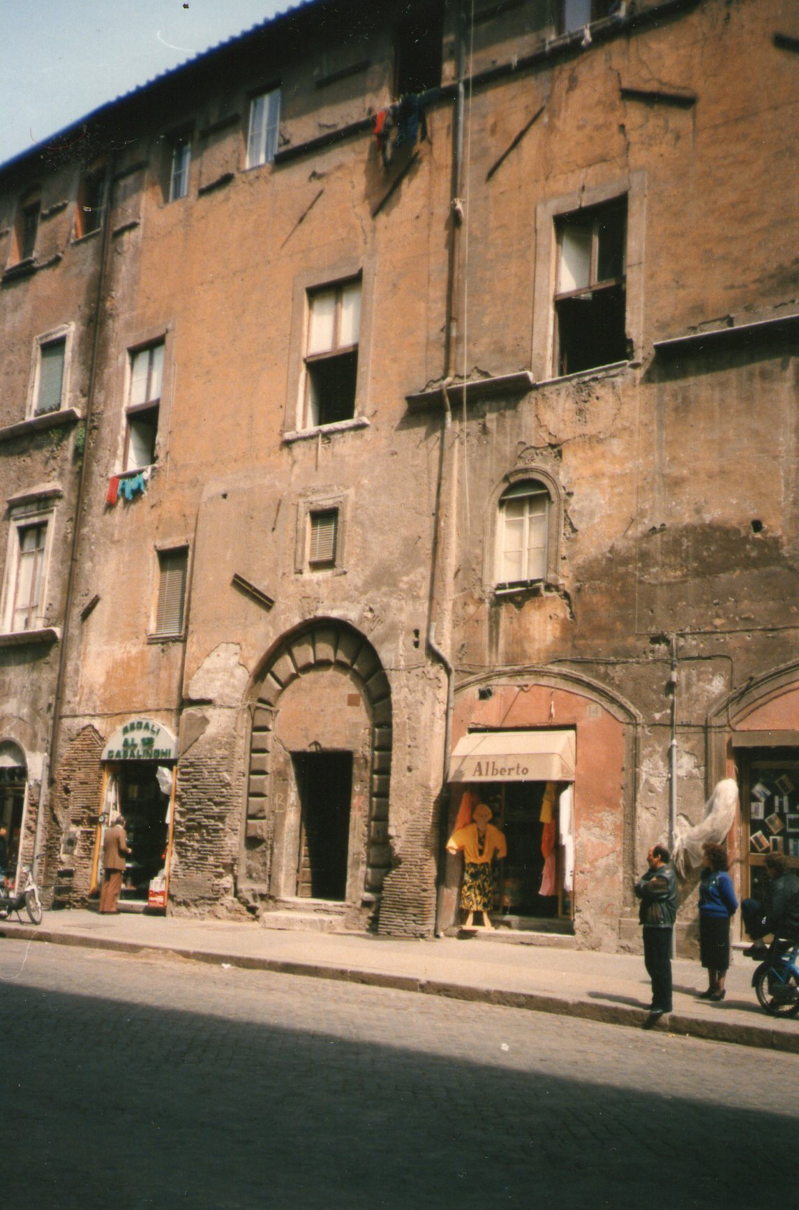 Via del Portico d' Ottavia 13, "Il portonaccio".